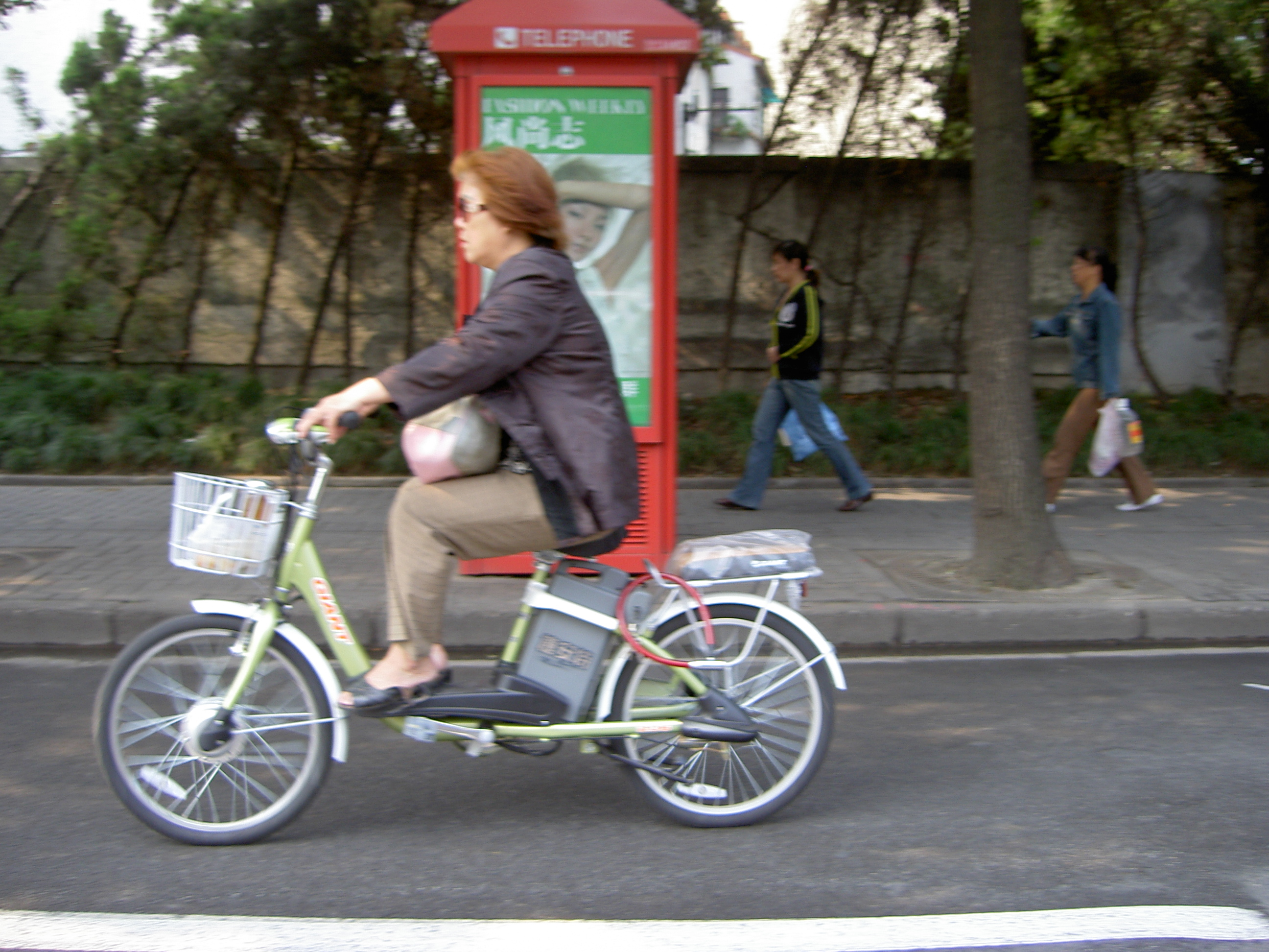 Electric bicycle in China 2007